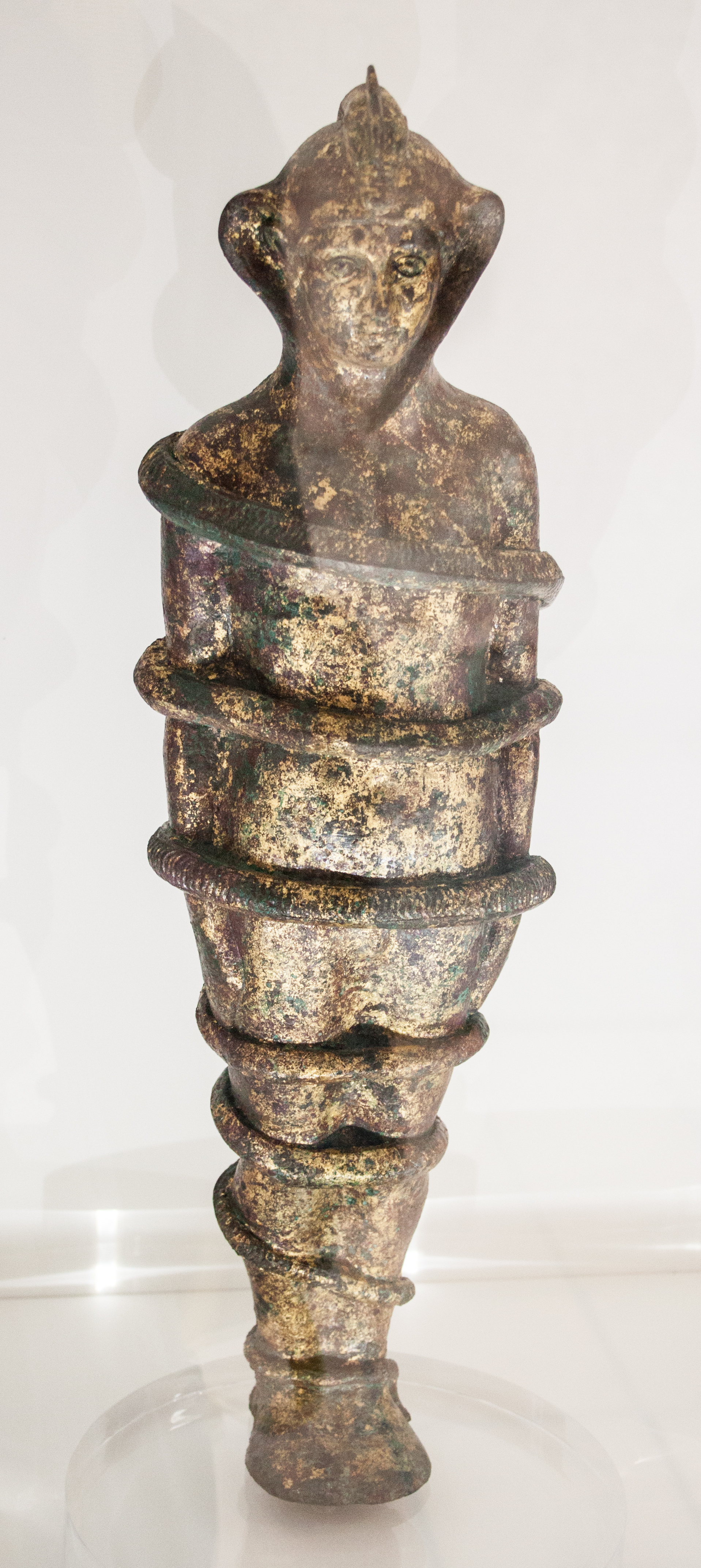 Gold-plated bronze statuette